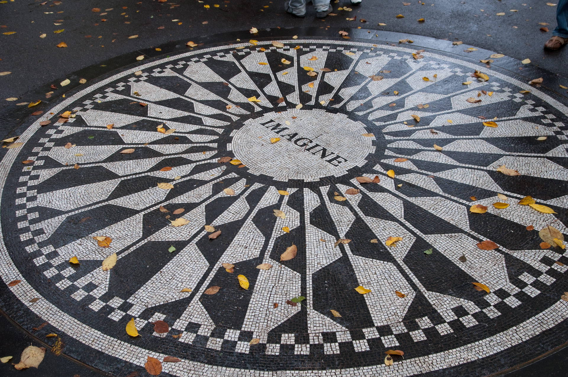 This is John Lennon's Central Park memorial near his apartment.